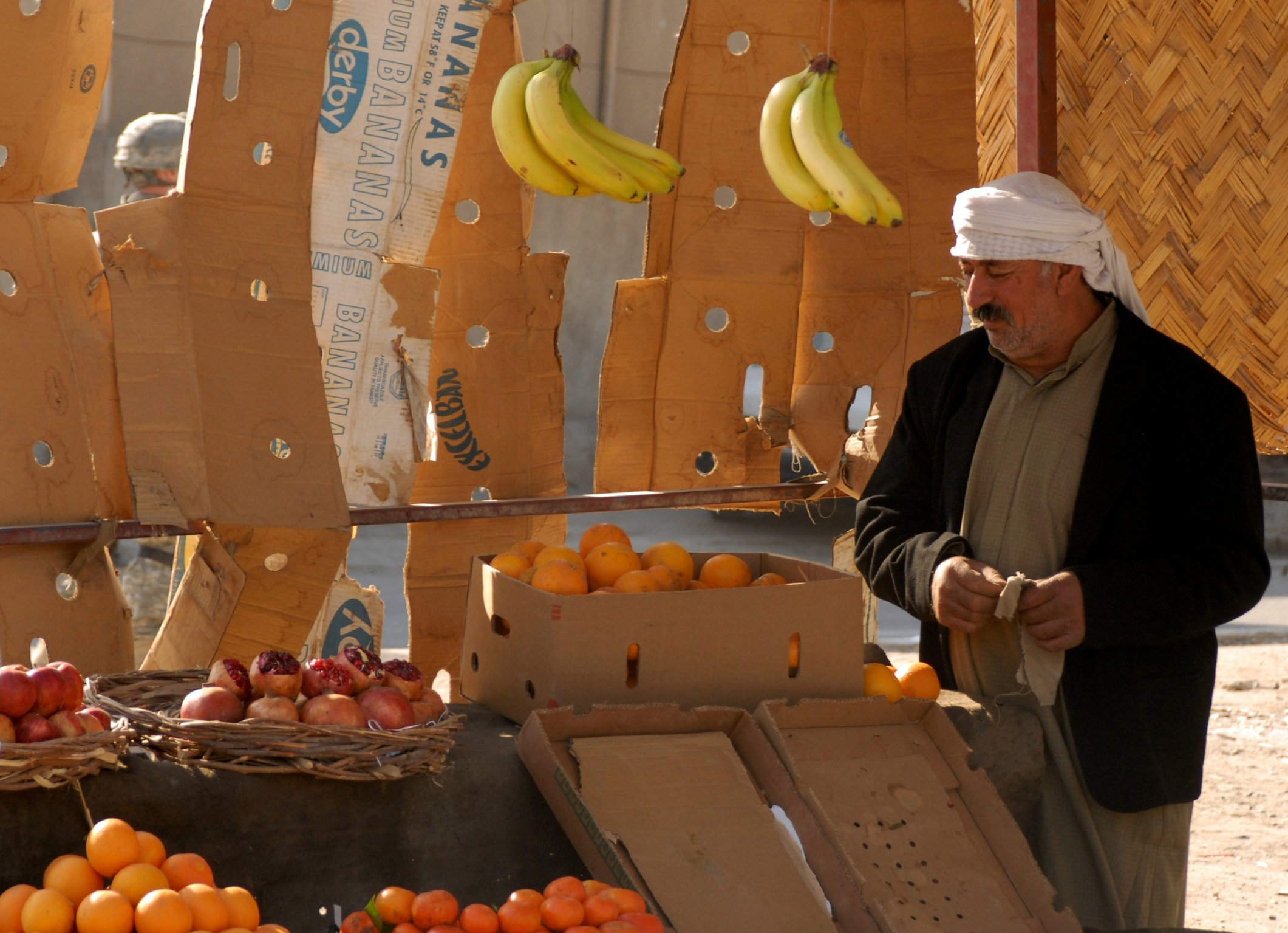 An Iraqi man sells fruit at a market in Al Rashid, Baghdad, Iraq